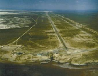 The 50,788 foot sled track at Holloman AFB, New Mexico is the longest in the world.